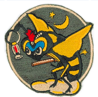 Emblem of the 418th Fighter Day Squadron (earlier 418th Night Fighter Squadron)